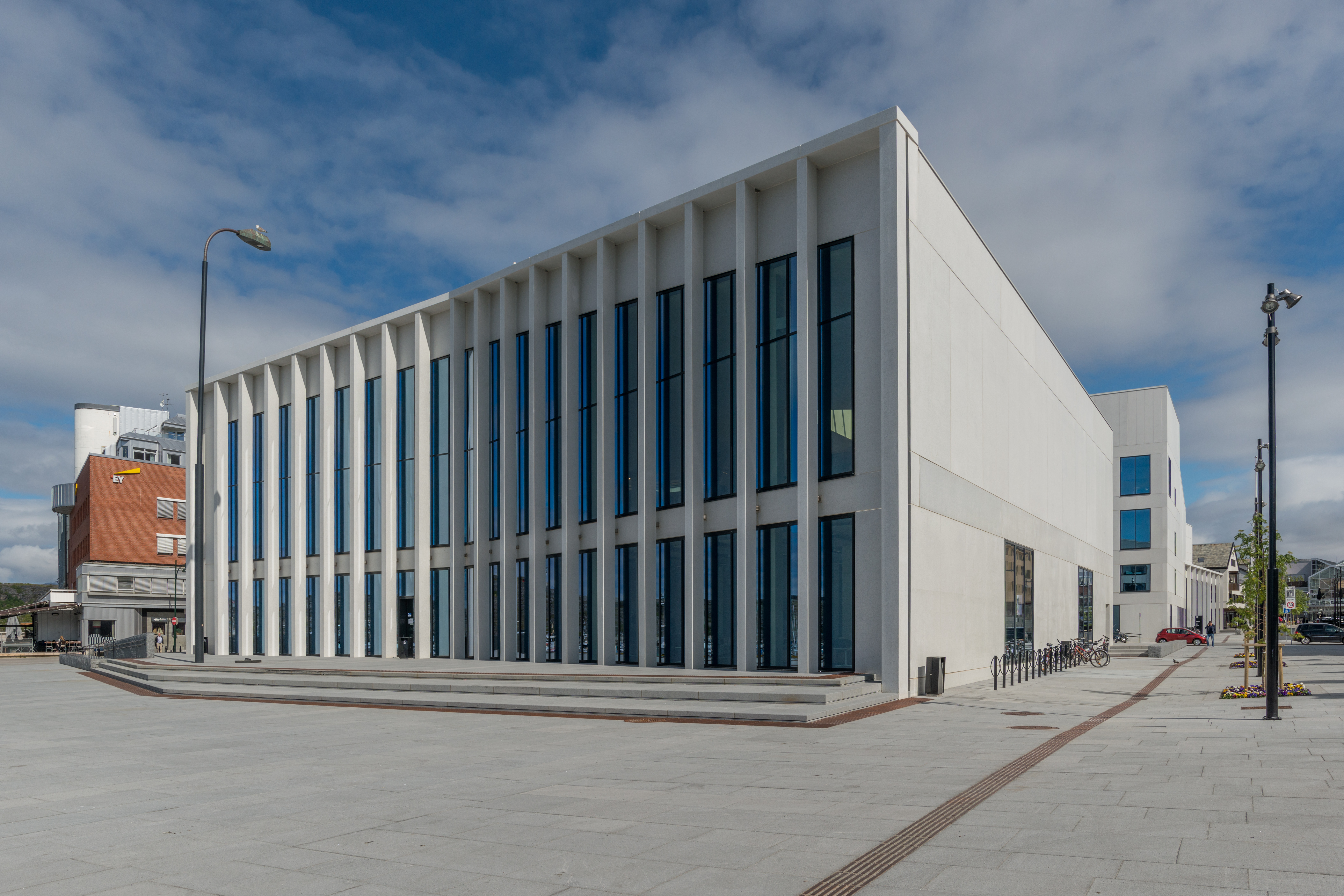 A south view of the library that is part of the Stormen complex in Bodø